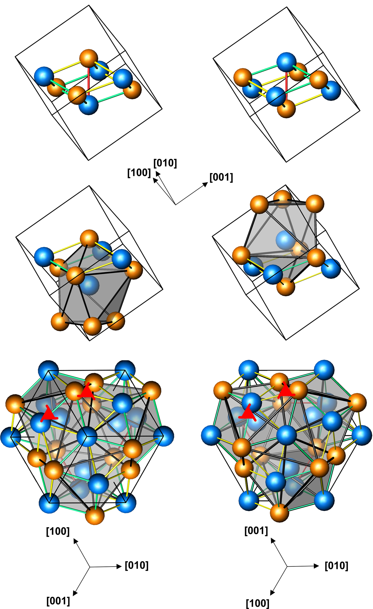 Crystal structure of left-handed and right-handed MeSi or MeGe crystals (Me=Fe, Co, Mn) with different numbers of atoms per unit cell shown in the top, middle and bottom panels. Orange atoms are Si or Ge